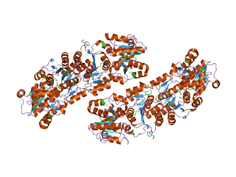 Cartoon representation of the molecular structure of protein registered with 1vgv code.